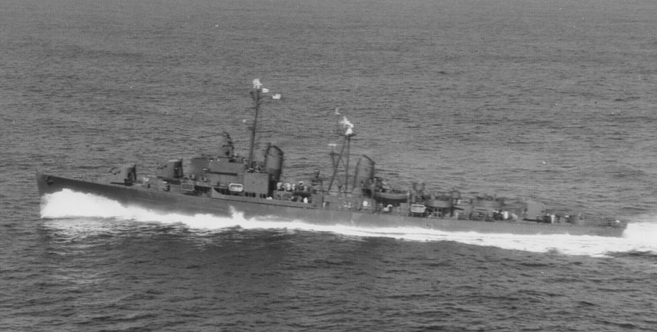 The U.S. Navy destroyer USS Turner (DD-834) underway in 1945. Note the white painted SC- and SM-radars.